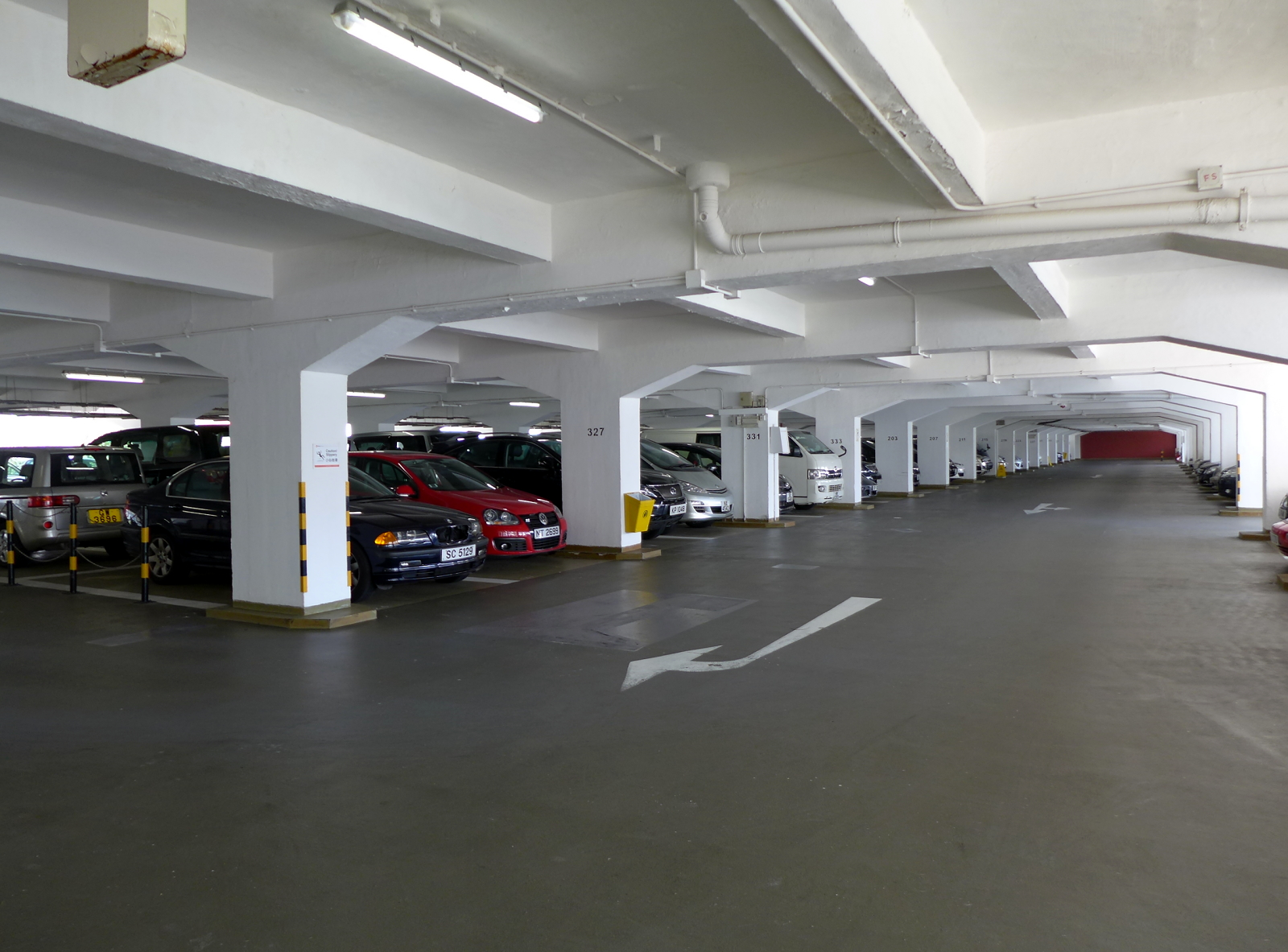 Star Ferry Multi-storey Car Park Interior